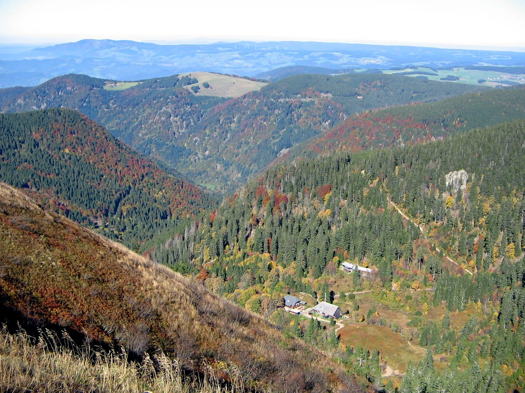 Black forest with Kandel (left, in the distance) and Zarten basin from Feldberg summit, Zastler Loch with Zastler hut in the foreground